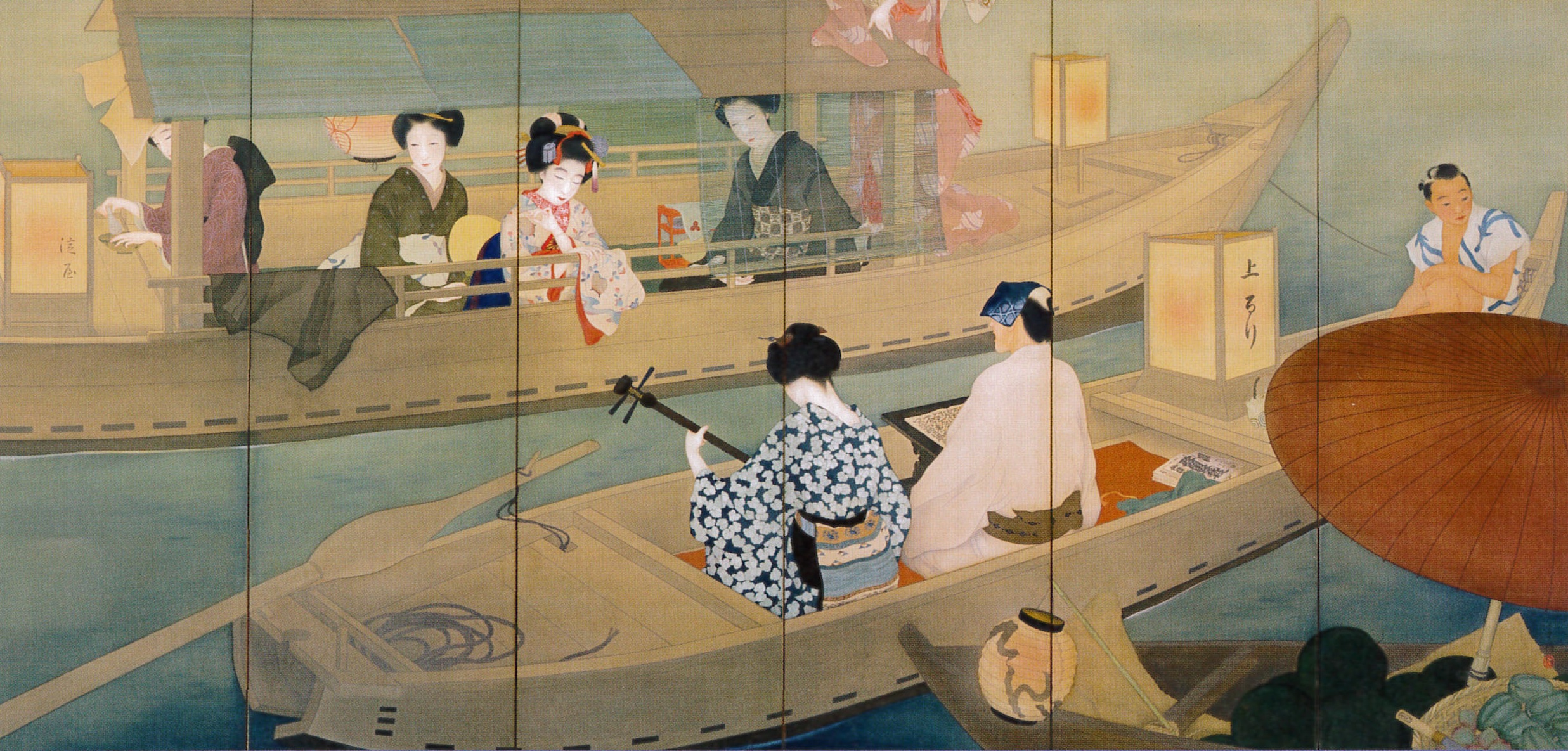 Joruri Boat, by Kitani Chigusa, Osaka, Japan